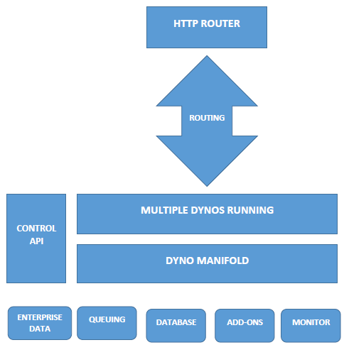 The image has been re-created based on the book: Heroku Cloud Application Development By Anubhav Hanjura